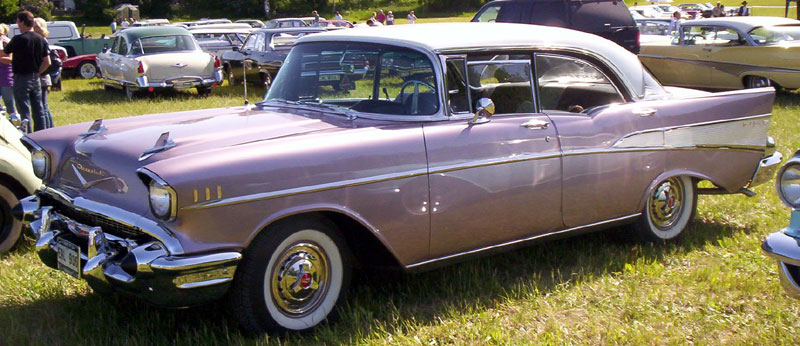 Chevrolet Bel Air 2413 4-Door 1957